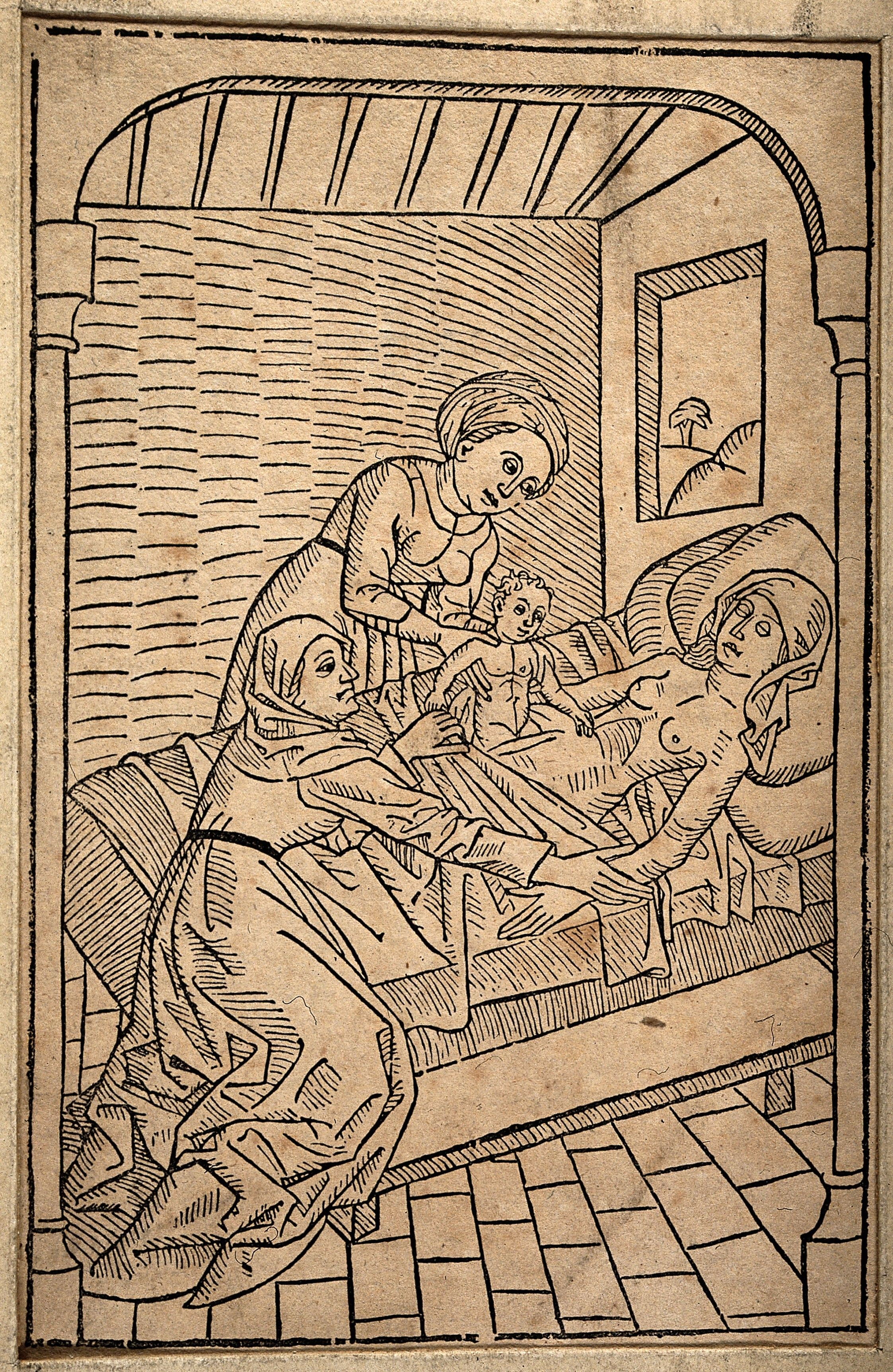 A baby being removed from its dying mother's womb via Caesarean section. Reproduction of woodcut, 1483. Iconographic Collections Keywords: ic